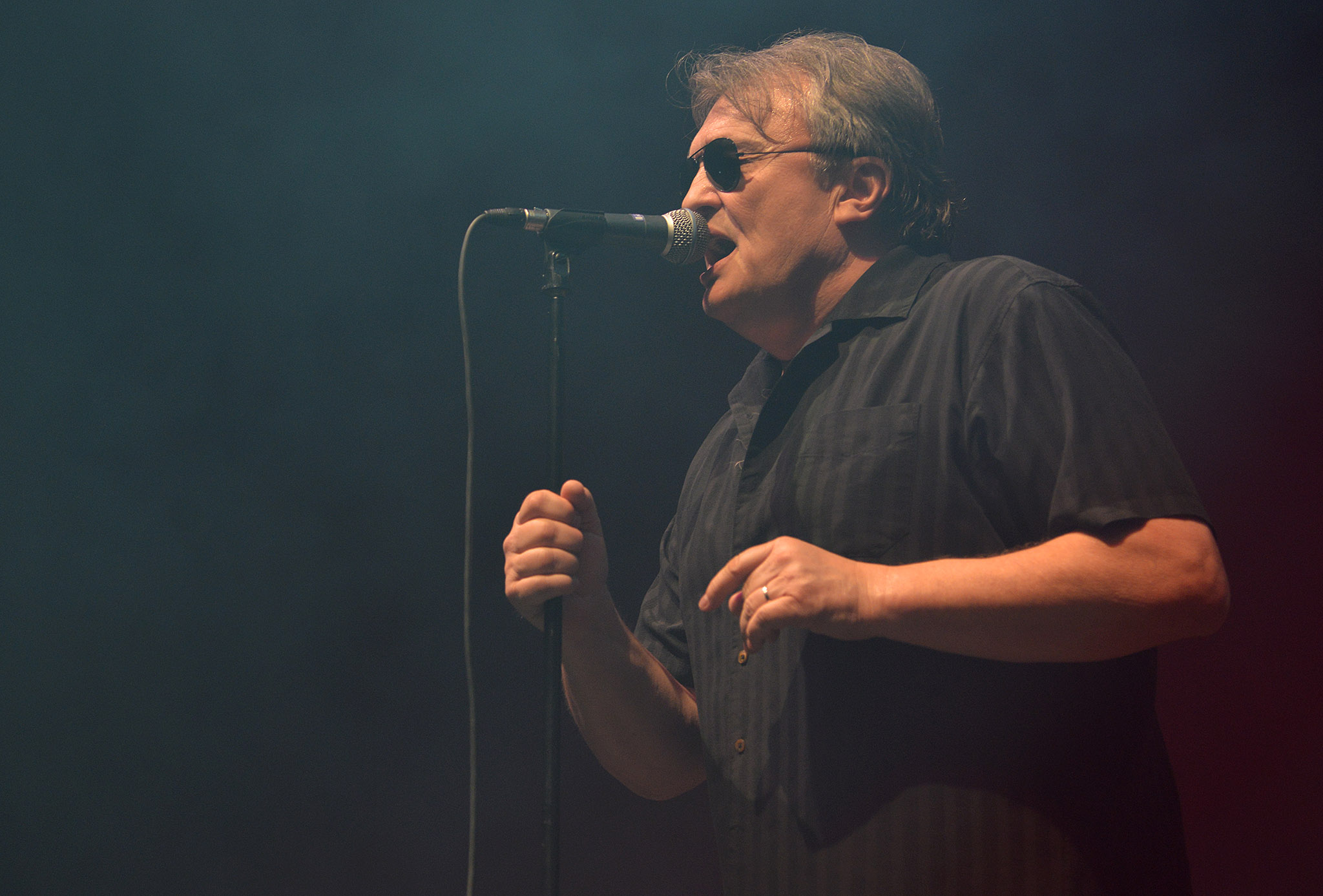 Music photography: Krzysztof Cugowski, Budka Suflera band. Concert in Bielsko-Biała, 2014